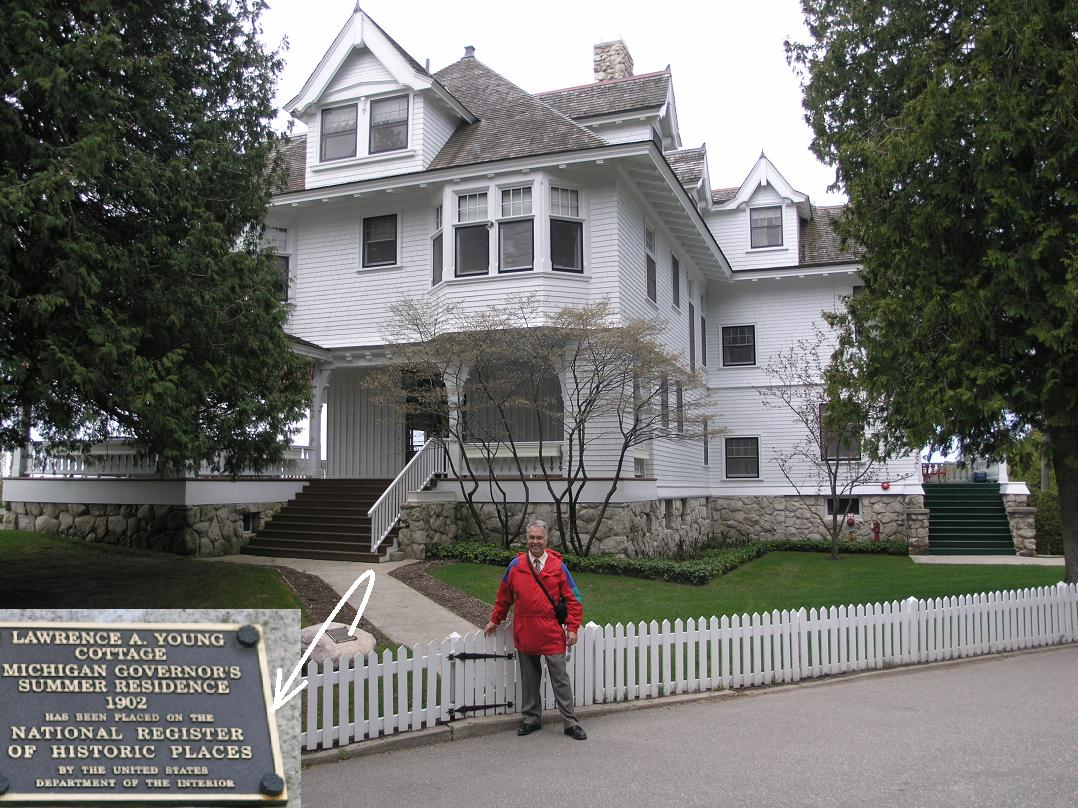 Governor's Mansion (MI)